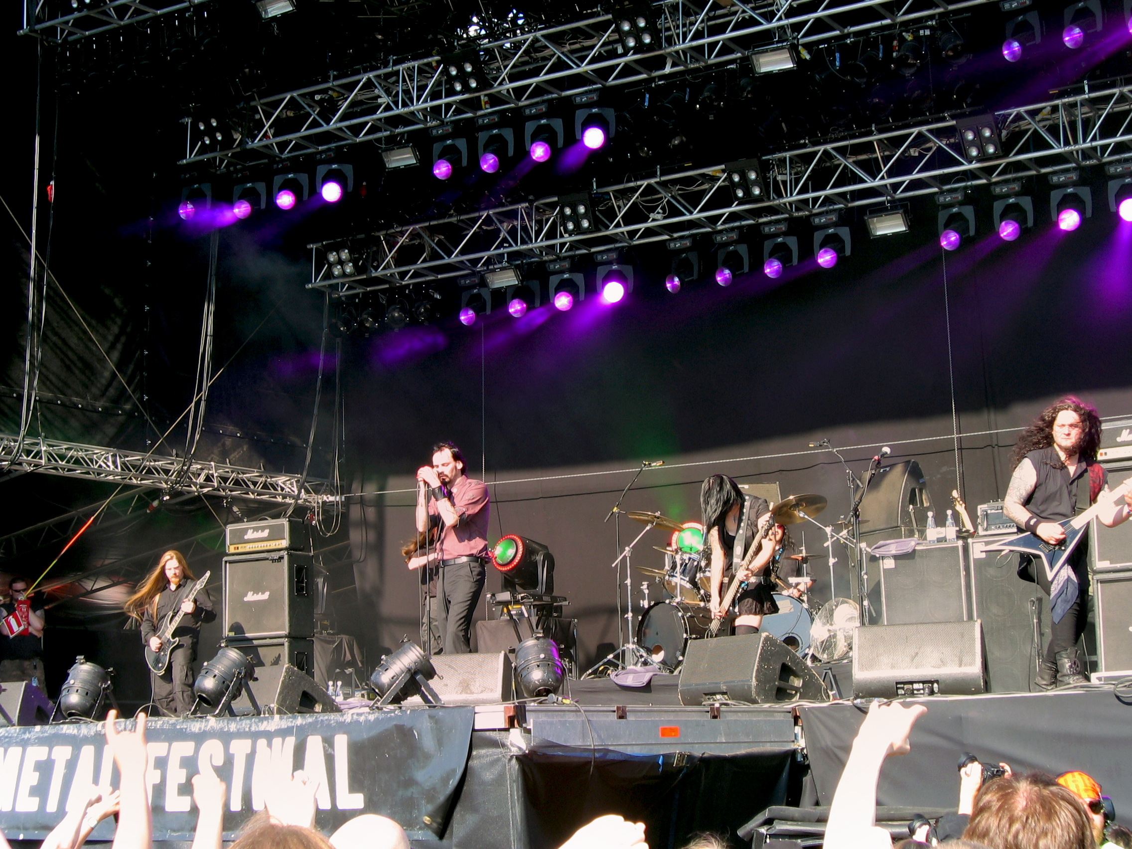 My Dying Bride playing at Tuska Open Air Metal Festival 2009.